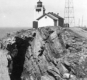 Public Domain statement here; THE ORIGINAL POINT ARGUELLO LIGHT TOWER